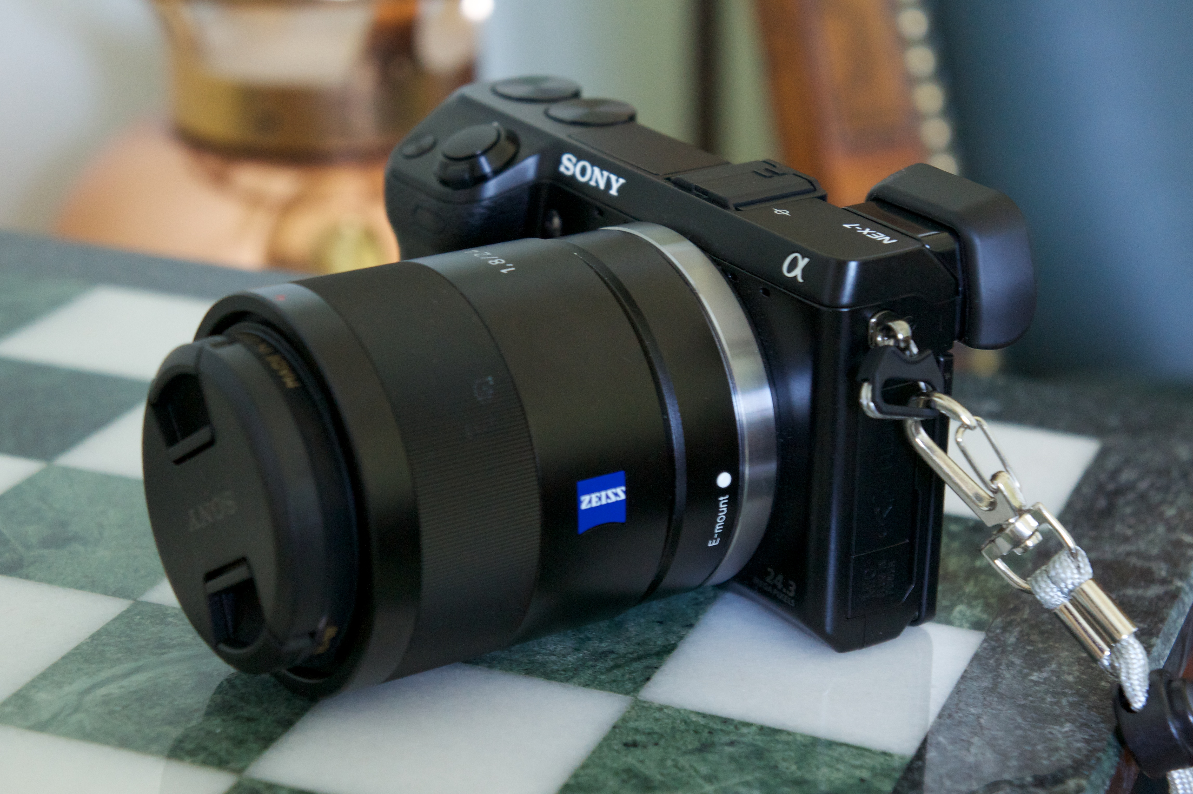 Sony NEX-7 camera with Zeiss 24mm f1.8 lens